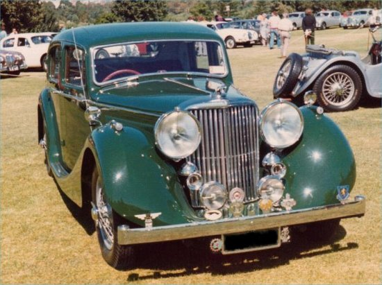 Jaguar Mark IV at a Jaguar Club meet, Bonython Park, Adelaide.